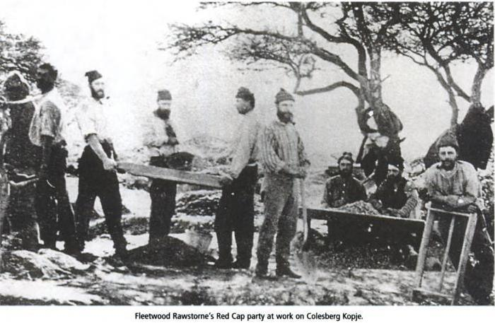 Fleetwood Rawstone's "Red Cap Party" of prospectors on Colesberg Kopje, which was later to become the Kimberley Mine